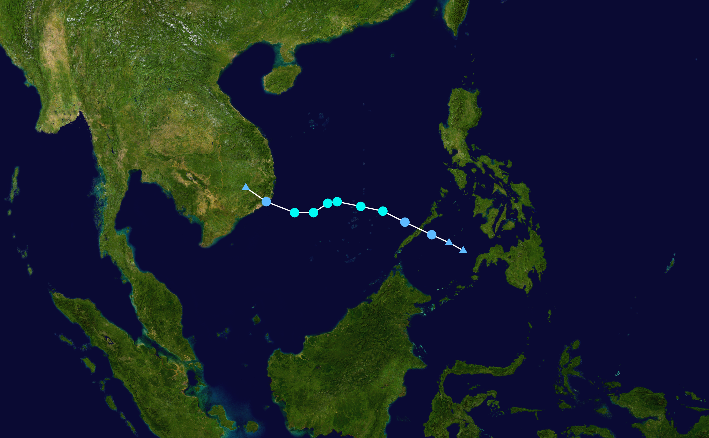 Track map of Tropical Storm Kirogi of the 2017 Pacific typhoon season. The points show the location of the storm at 6-hour intervals. The colour represents the storm's maximum sustained wind speeds as classified in the Saffir–Simpson scale (see below), and the shape of the data points represent the nature of the storm, according to the legend below. Saffir–Simpson scale Tropical depression≤38 mph≤62 km/h Category 3111–129 mph178–208 km/h Tropical storm39–73 mph63–118 km/h Category 4130–156 mph209–251 km/h Category 174–95 mph119–153 km/h Category 5≥157 mph≥252 km/h Category 296–110 mph154–177 km/h Unknown Storm type Tropical cyclone Subtropical cyclone Extratropical cyclone / Remnant low / Tropical disturbance / Monsoon depression